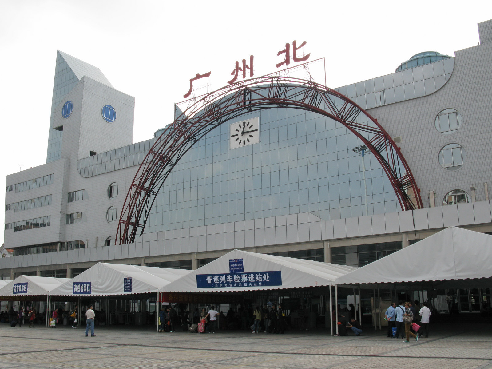 Guangzhou North Railway Station